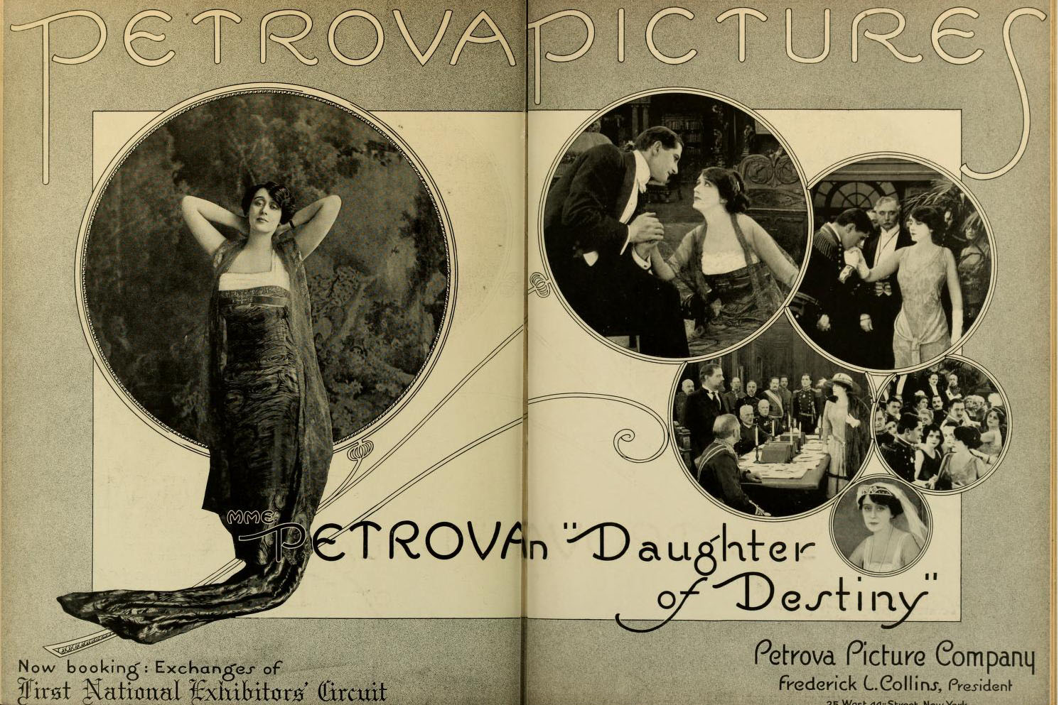 Advertisement in Moving Picture World, Nov 1917 for the American film Daughter of Destiny (1917).